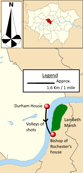 Illustration of the distance between Bishop Fisher's house in Lambeth and the Earl of Wiltshire's Durham House on the Strand: the latter was accused in 1531 of firing a gun through the roof of the bishop's house.